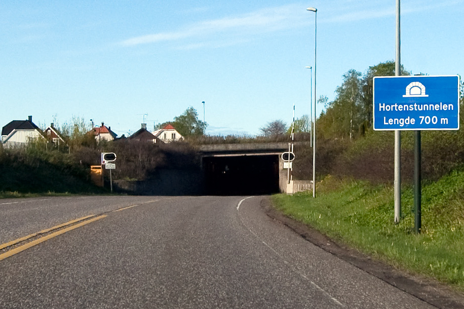 Hortenstunnelen. A road tunnel on national road 19 in Horten, Vestfold, Norway, seen from the northeast.